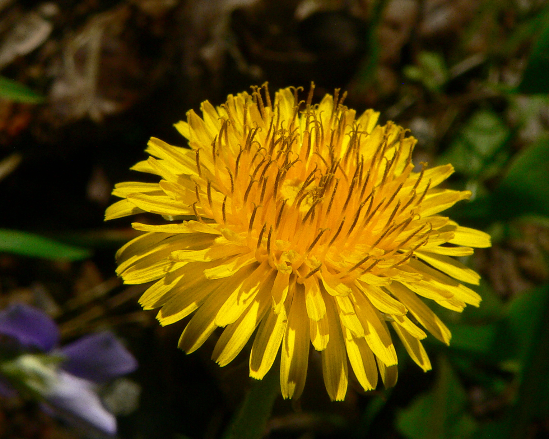 Dandelion (Taraxacum officinale) - taken in southeastern Ohio, USA.